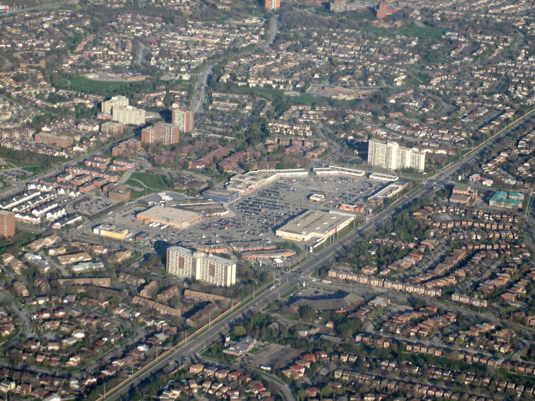 Meadowvale Town Centre, Meadowvale, Ontario taken on approach to Pearson